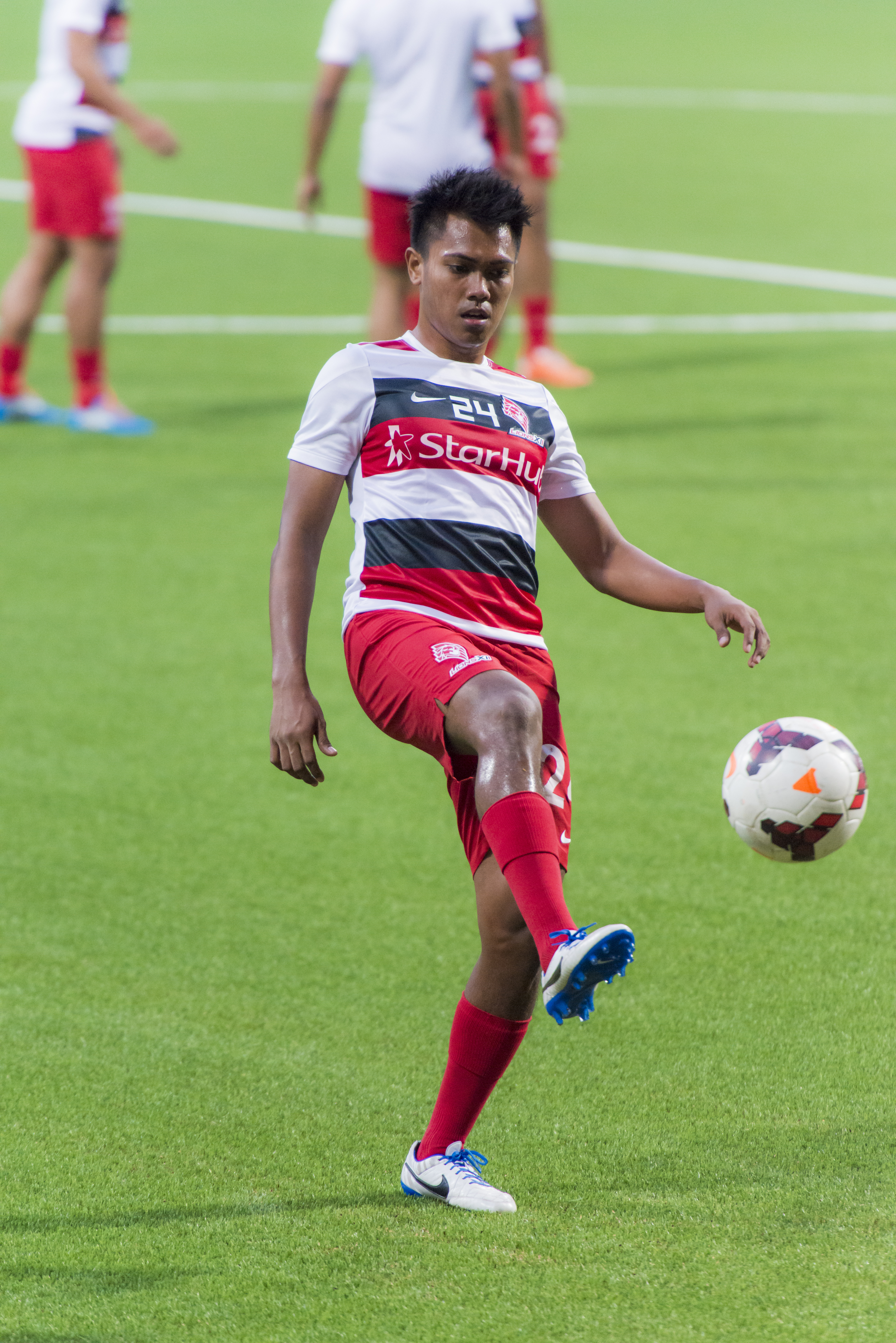 firdaus kasman 2014 lionsxii msl versus kelantan fa